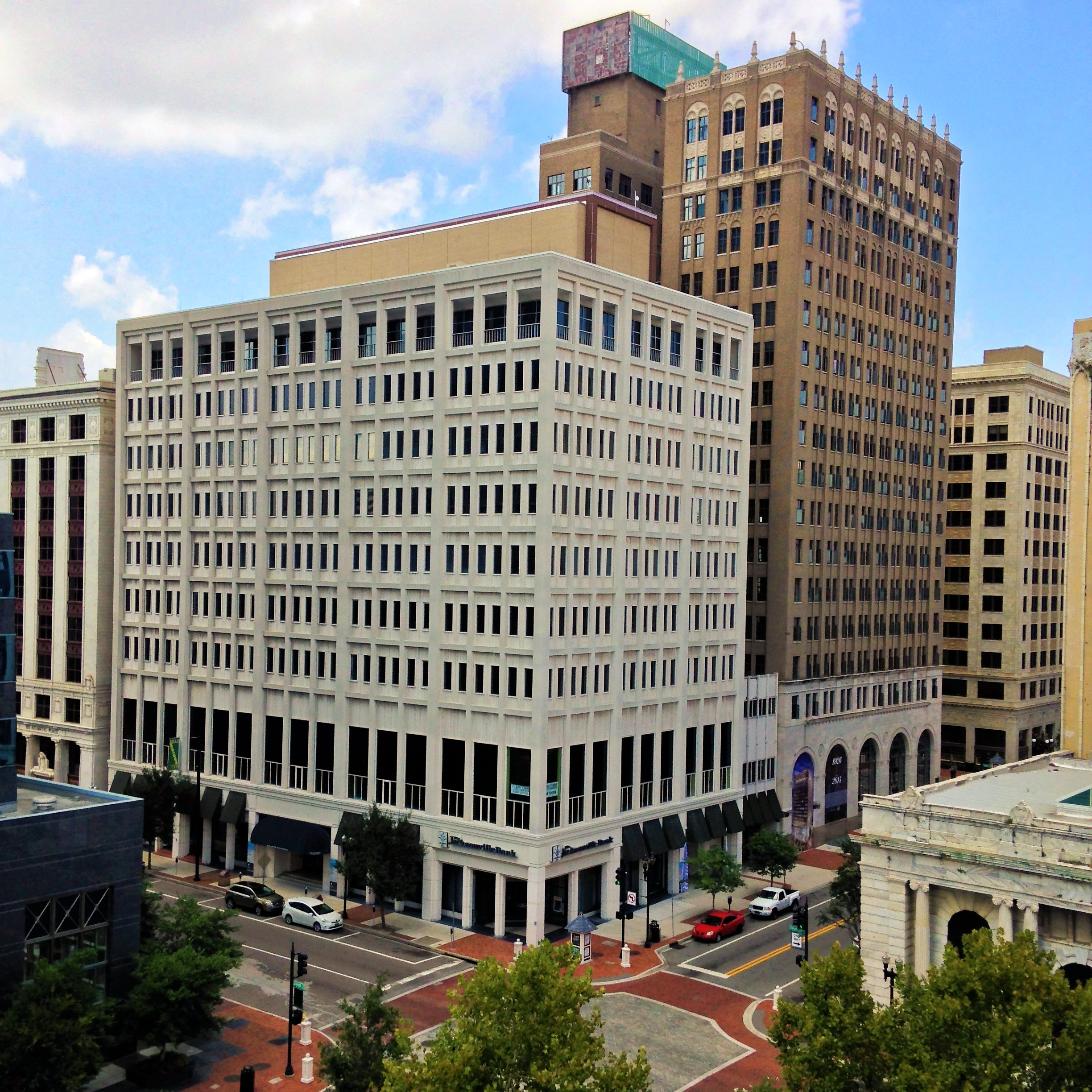 Jacksonville Bank Building, Jacksonville, Florida